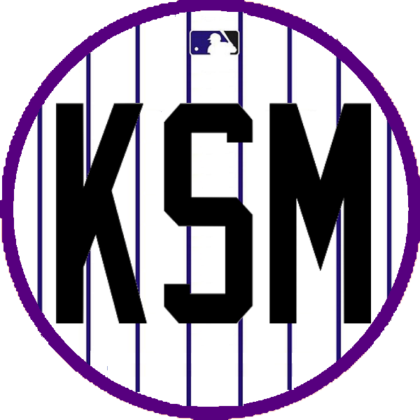 Tribute to Keli McGregor as seen at Coors Field